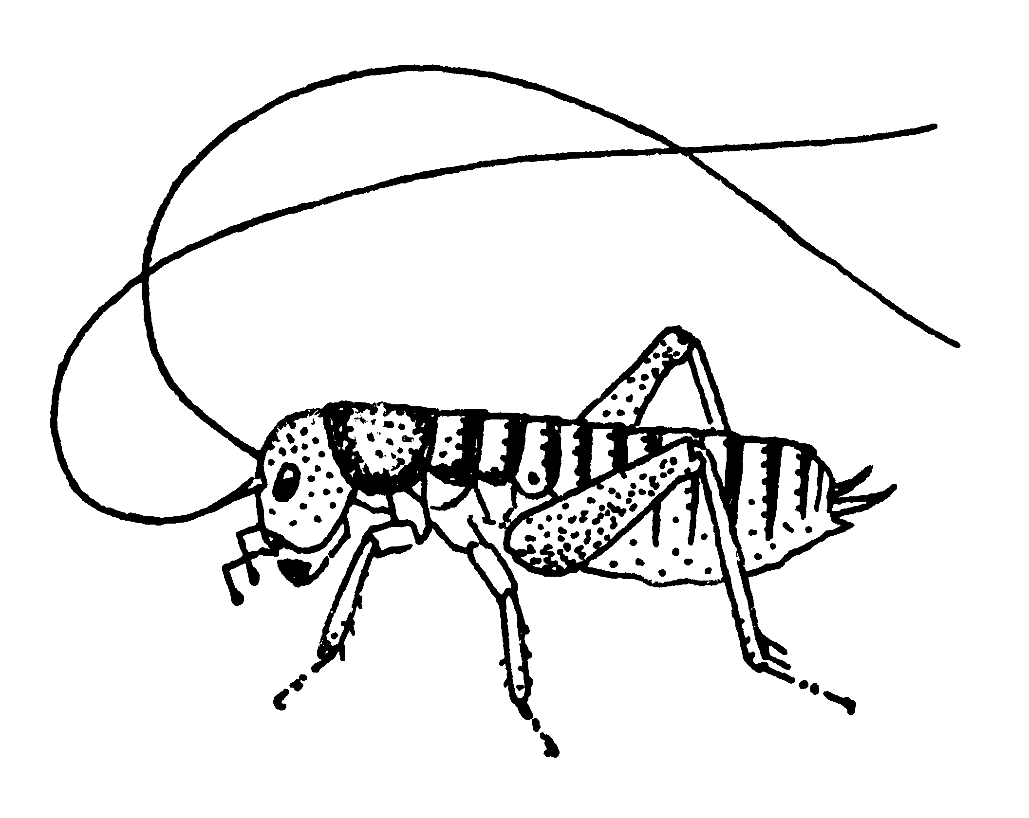 (Orthoptera: Anostostomidae) Hemipteraandrus sp illustrated by Des Helmore.